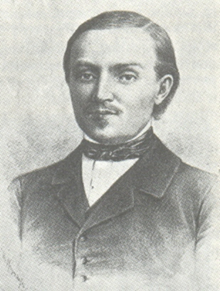 Croatian composer Vatroslav Lisinski